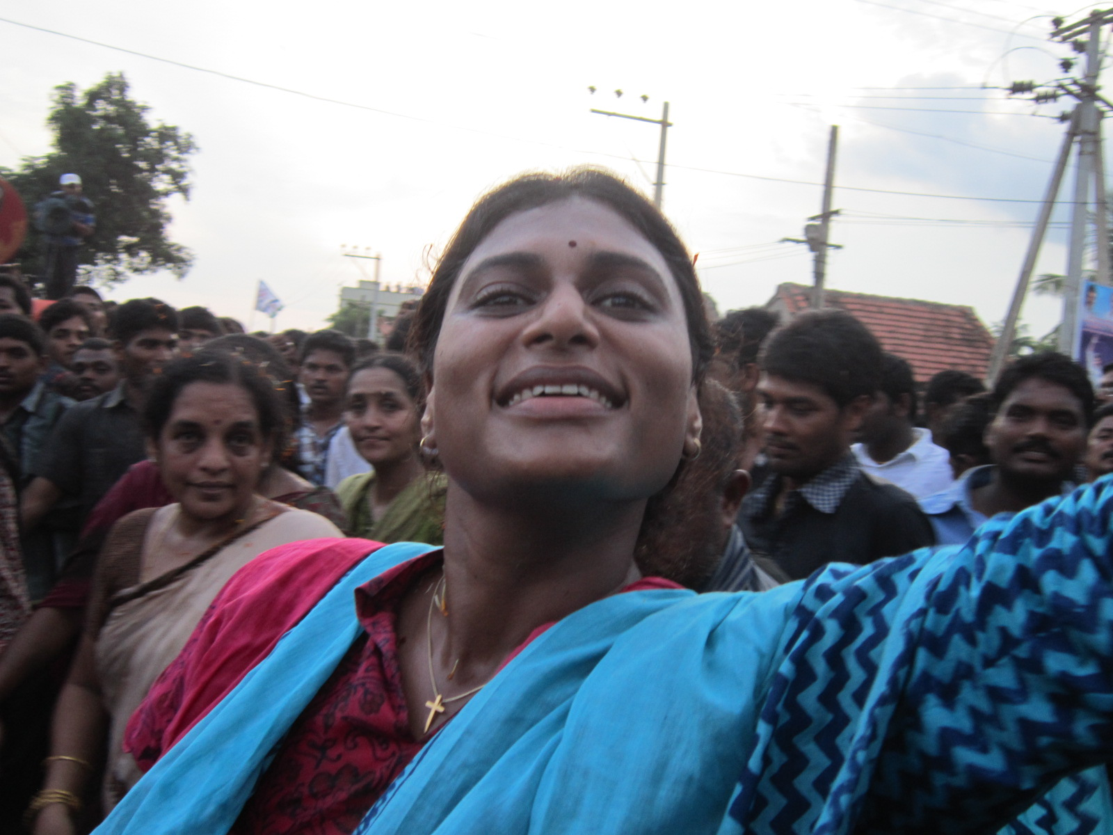 leader of YSRCP.doing padayatra,sister of YS Jagan